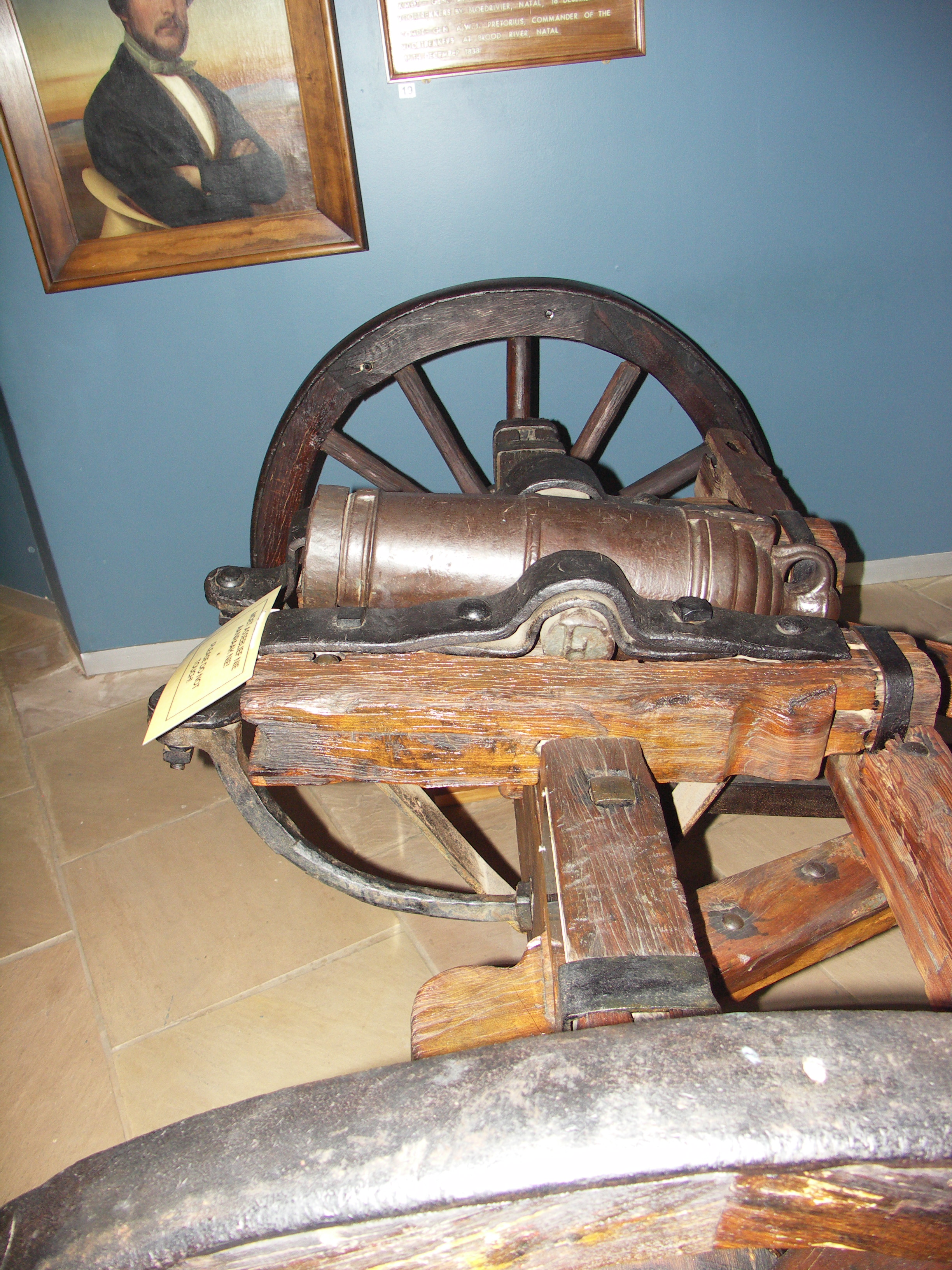 Grietjie, one of the cannon used during the Battle of Blood River on December 16, 1838. Mounted on the back axle of an ox-wagon. Currently located in the museum on the lower level of the Voortrekker Monument, Pretoria, South Africa ↑ a b (1974). "Grepe uit 'n Kleurryke Artillerietradisie". Scientia Militaria, South African Journal of Military Studies 4 (4).